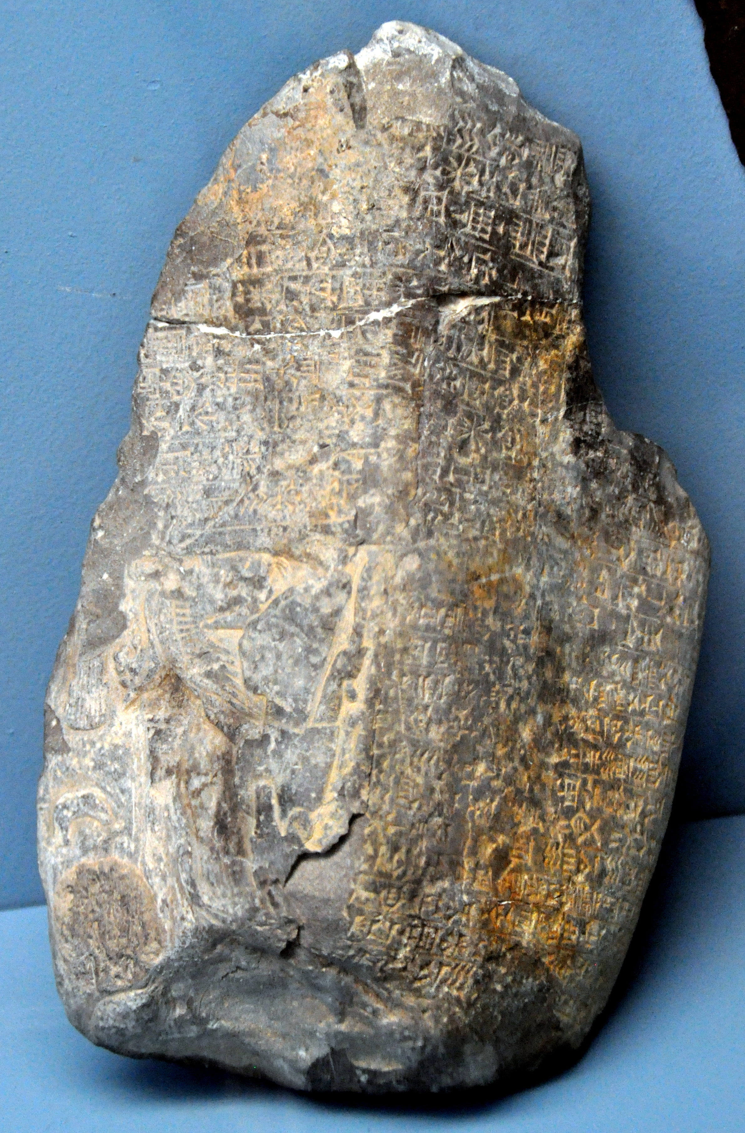 Kudurru. Legal document of a land bequest made by the Kassite king Kurigalzu II and it was kept in a temple. From Nippur, Iraq. Late 14th century BCE. On display at the Ancient Orient Museum, Istanbul, Turkey.